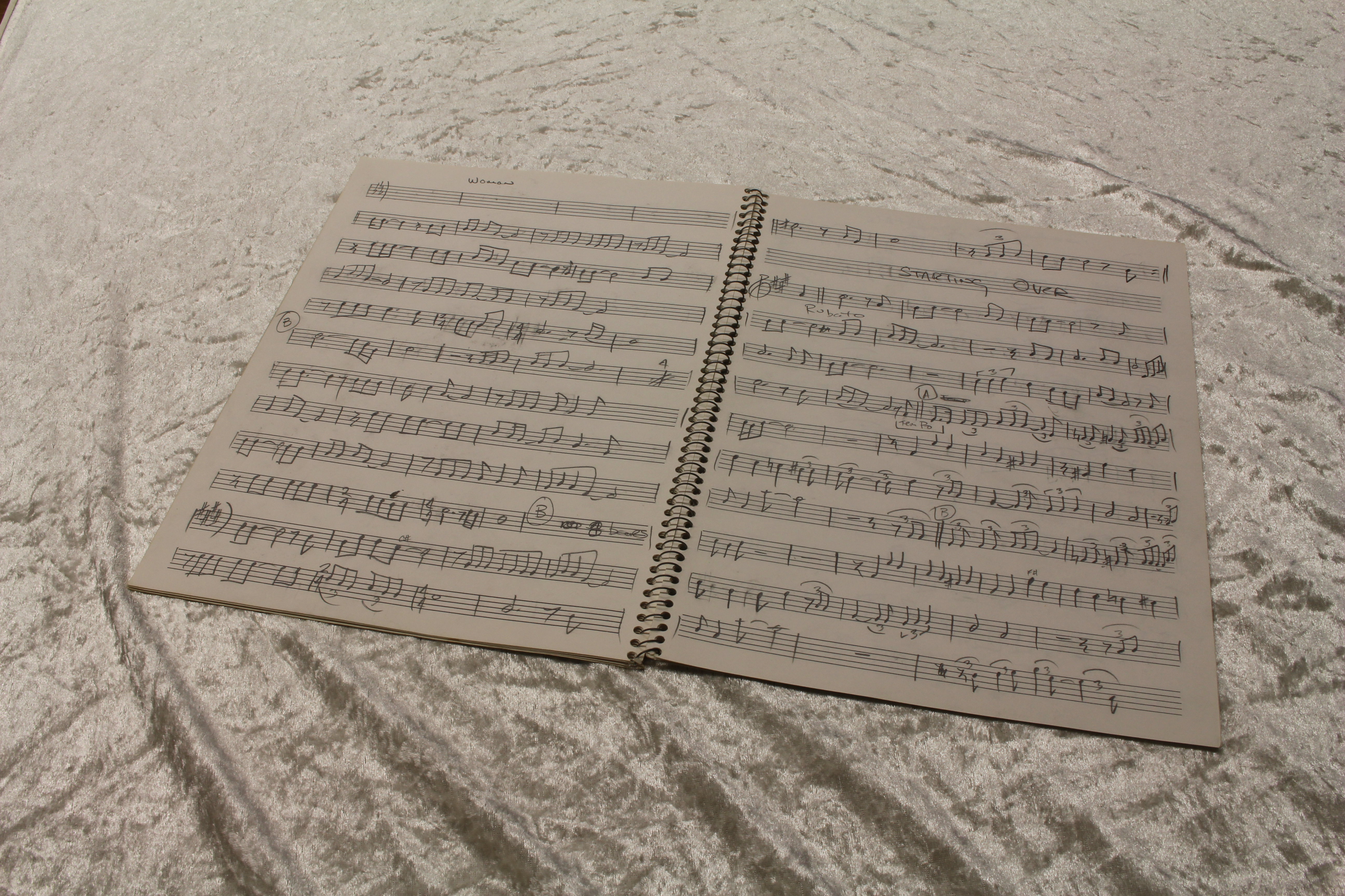 "Woman" handwritty by John Lennon